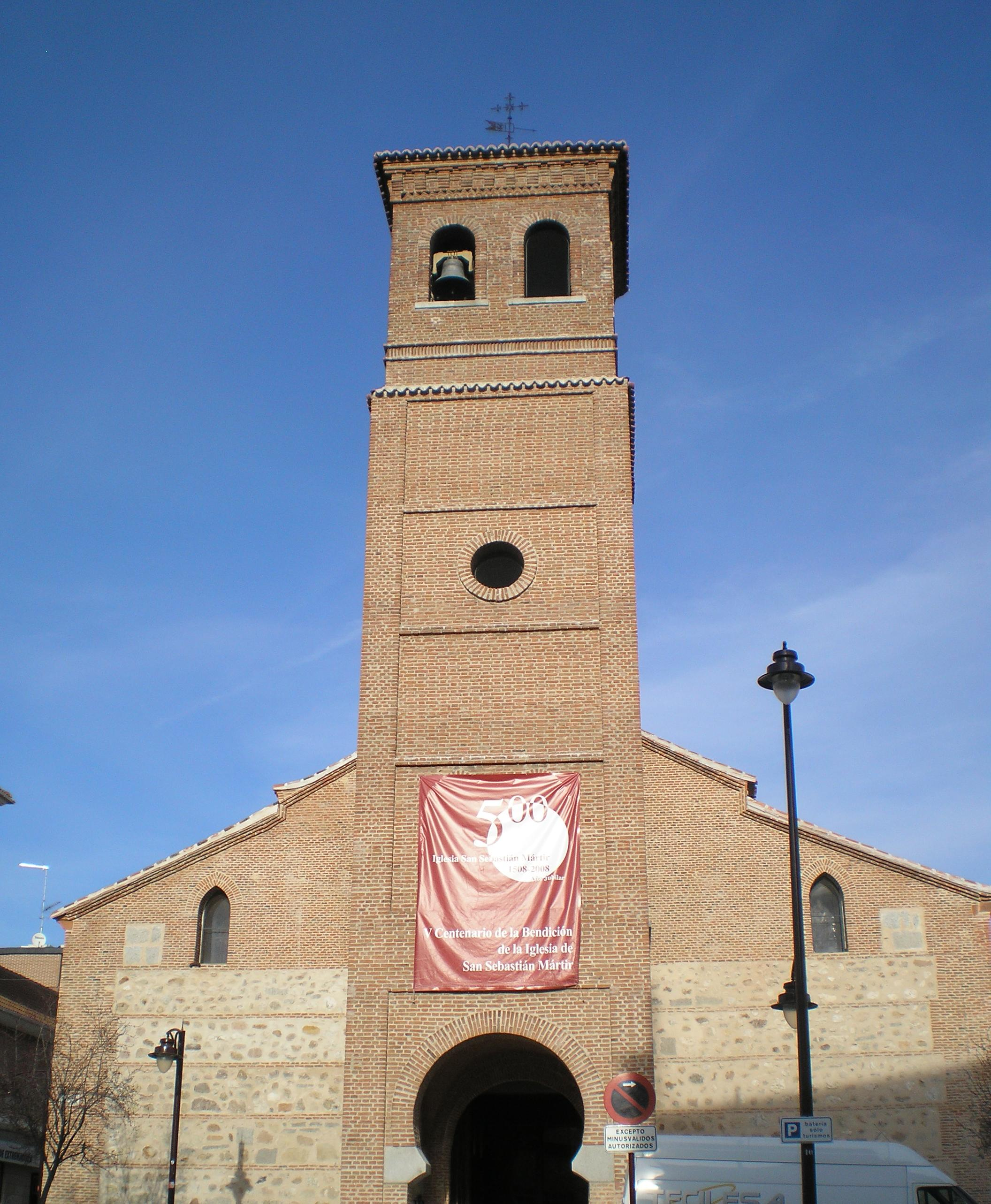 St. Sebastian martyr church in San Sebastián de los Reyes, Madrid.